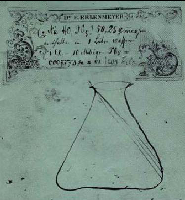 The original design of the Erlenmeyer flask.